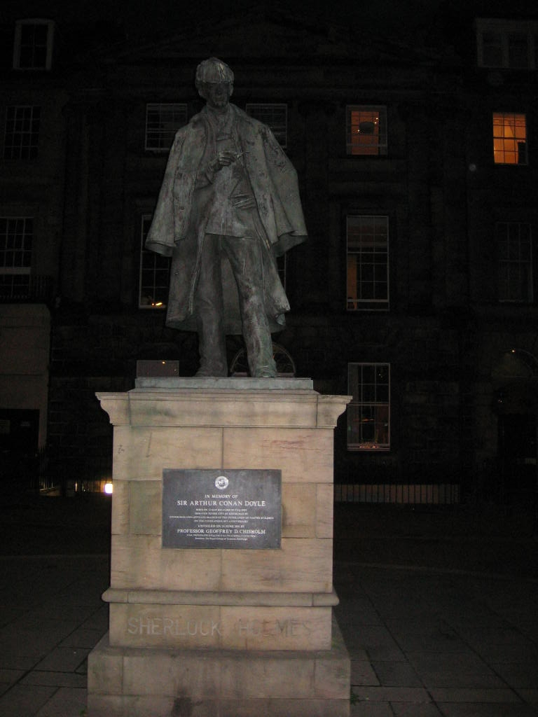 Sherlock Holmes statue - Edinburgh, Scotland